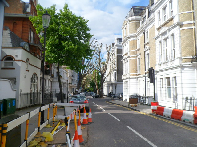 Linden Gardens, London W2